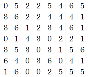 Dominoza puzzle